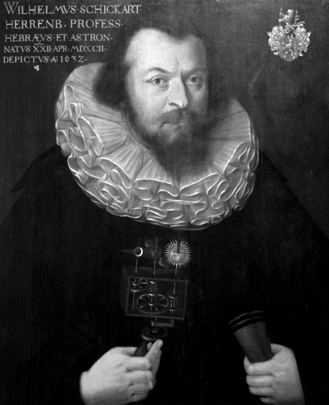 Portrait of Wilhelm Schickard at Tübingen University